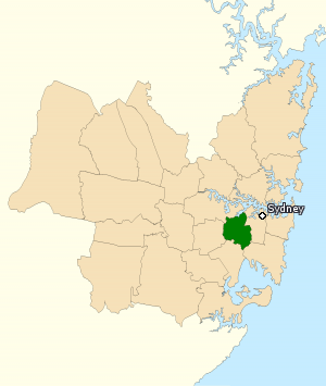 This image incorporates data that is: © Commonwealth of Australia (Australian Electoral Commission) 2009 Division of Grayndler 2010